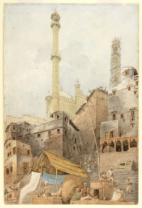 "Smaller mosque of Aurangzeb, with the north minaret covered with scaffolding (Varanasi)," watercolour, by the Anglo-Indian scholar, antiquarian and mint assay master James Prinsep. Dated 1826. Courtesy of the British Library, London.